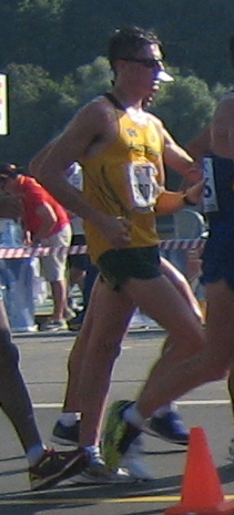 2013 IAAF World Championships in Moscow. 20 km walk men.